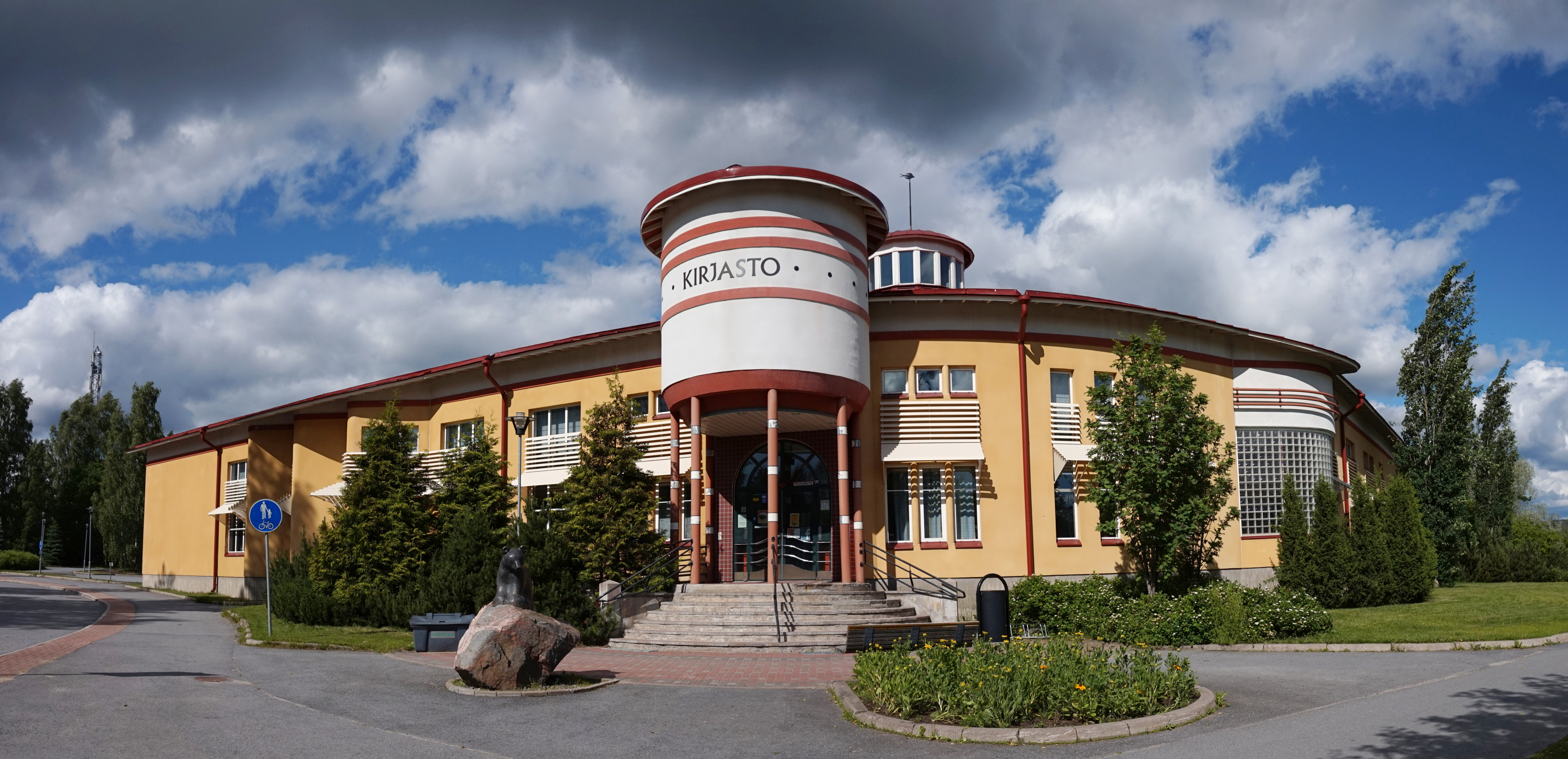 Library of Virrat.